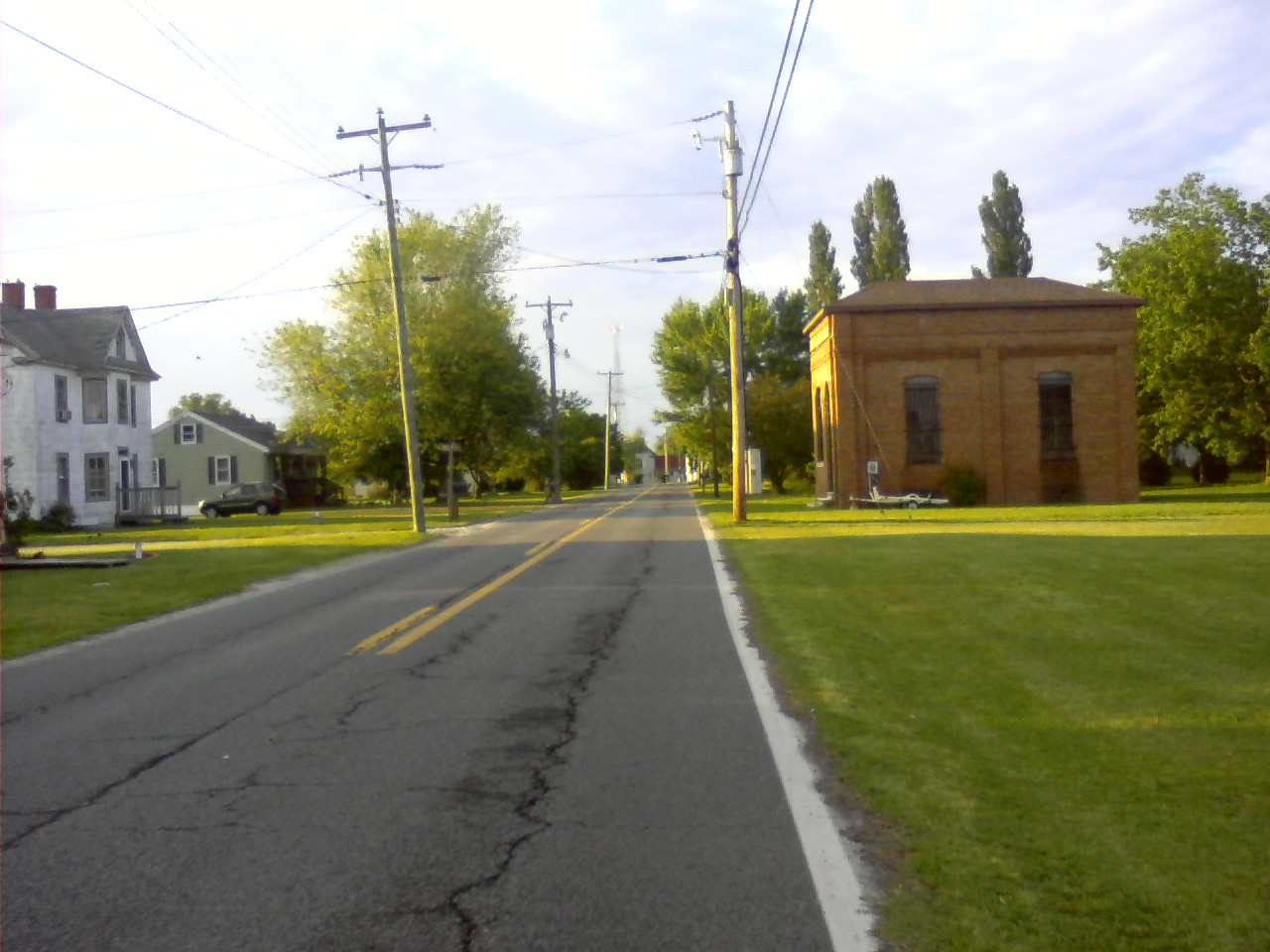 A view of the old bank building on Deal Island, Maryland along MD Route 363.